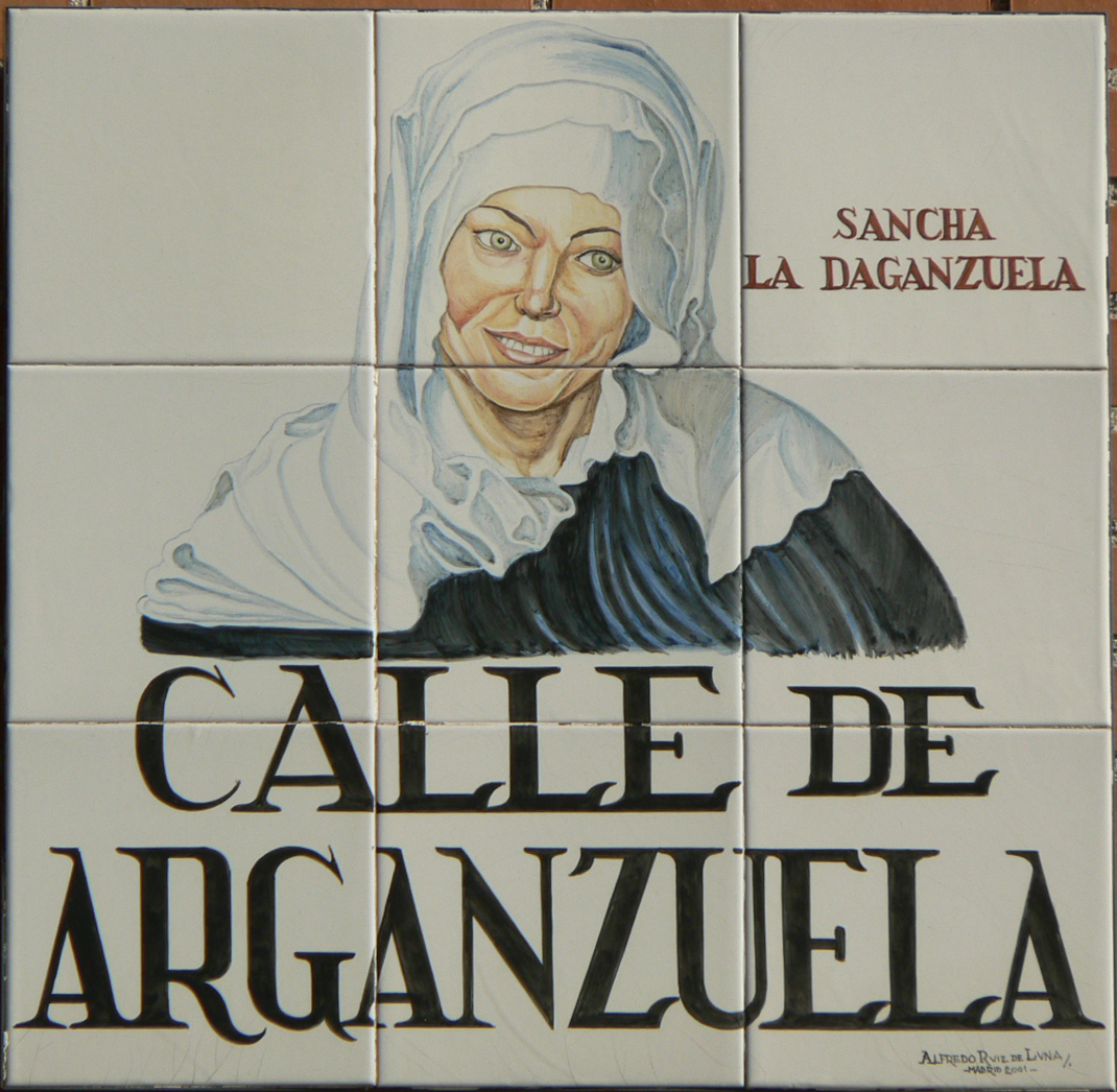 Sign of Calle de Arganzuela (street, Centro district) in Madrid (Spain).